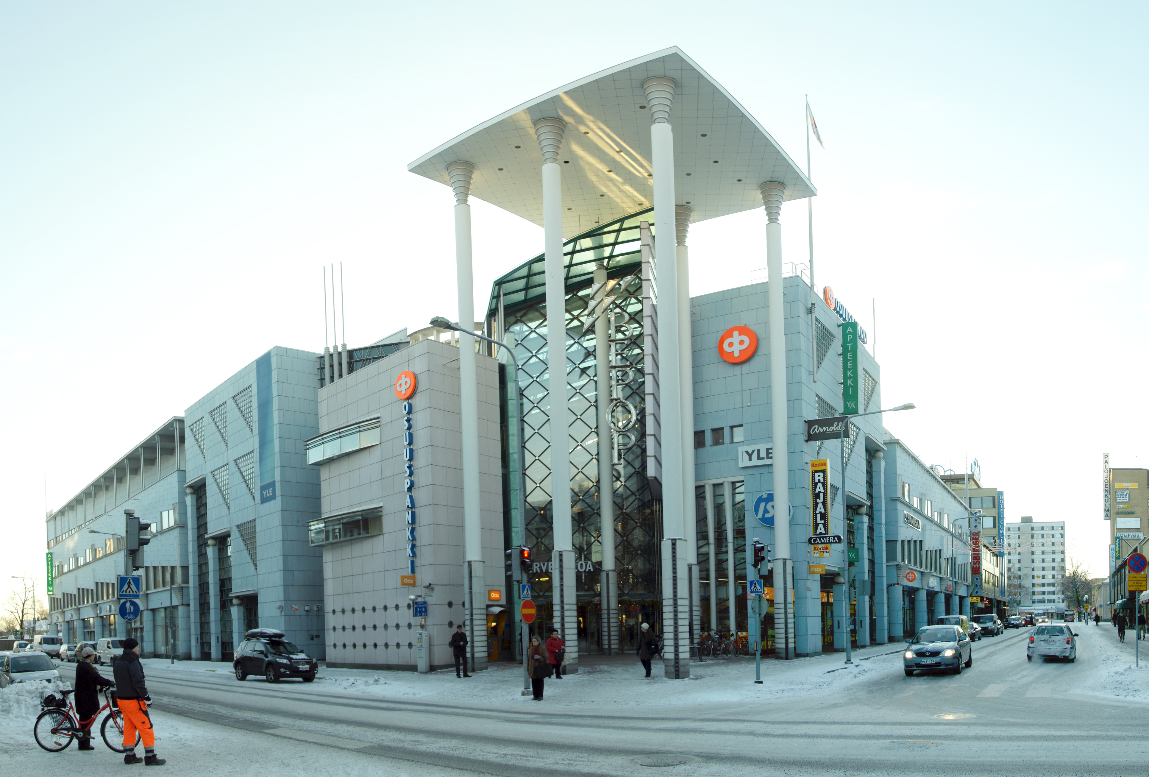 Shopping mall BePOP in Pori, Finland.